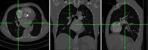 Orthographic MPRs of a CT scan. Generated by Kieran Maher using OsiriX. marz 05:36, 23 October 2006 (UTC)